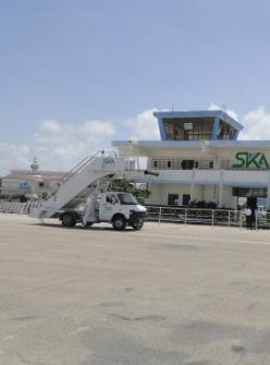 Mogadishu International Airport, Somalia